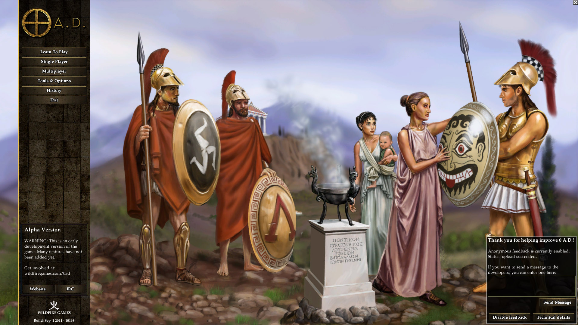 0 AD main title